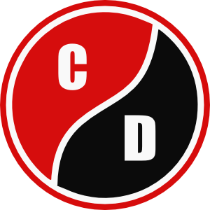 Logo of Cucuta Deportivo Further information: This is an art work made with the software Inskape. It does not comply with the official vector graphcis and therefore It has been uploaded to the wikimedia foundation under the respectable license.